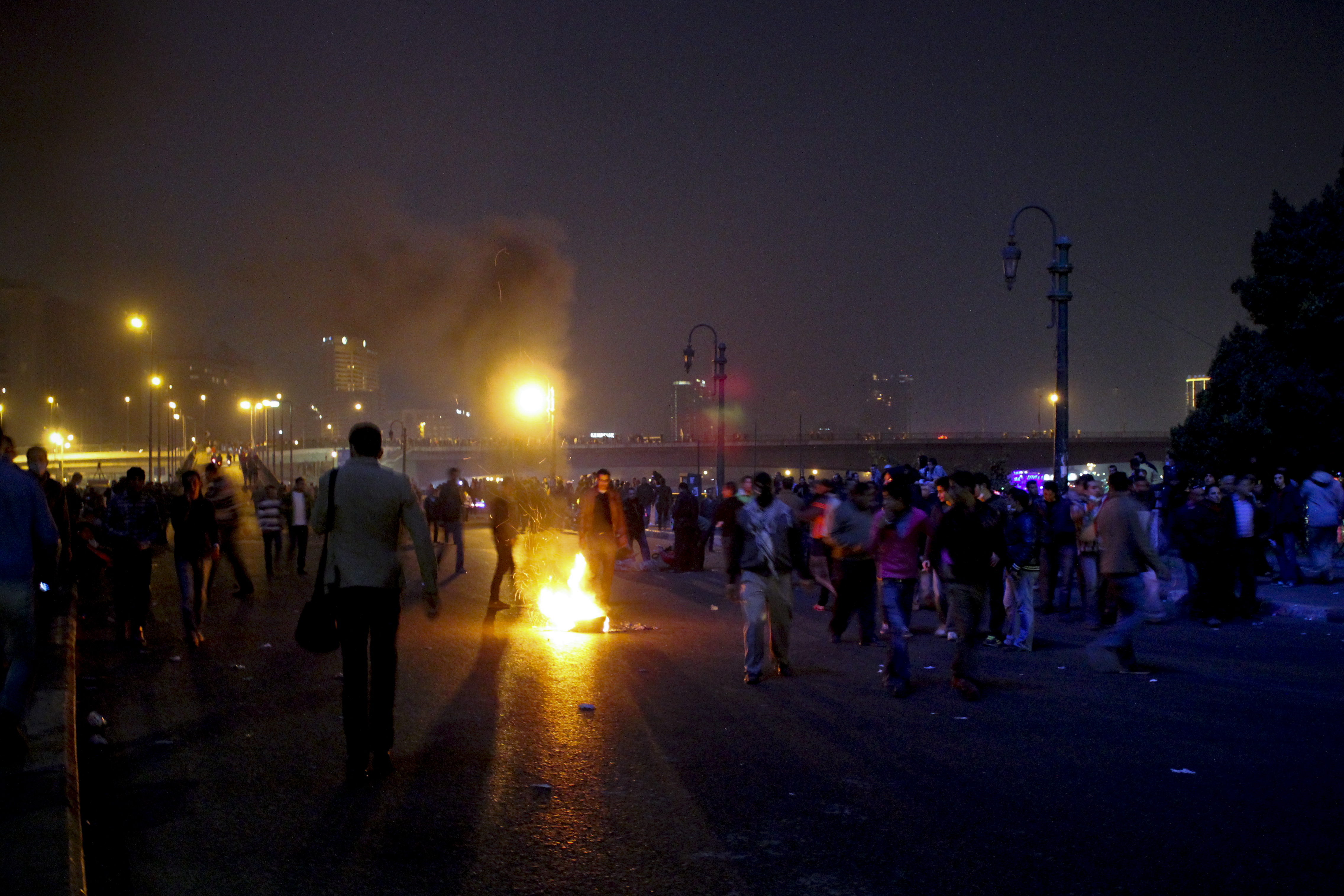 Protests in Egypt, 25th January 2013, most likely in Cairo